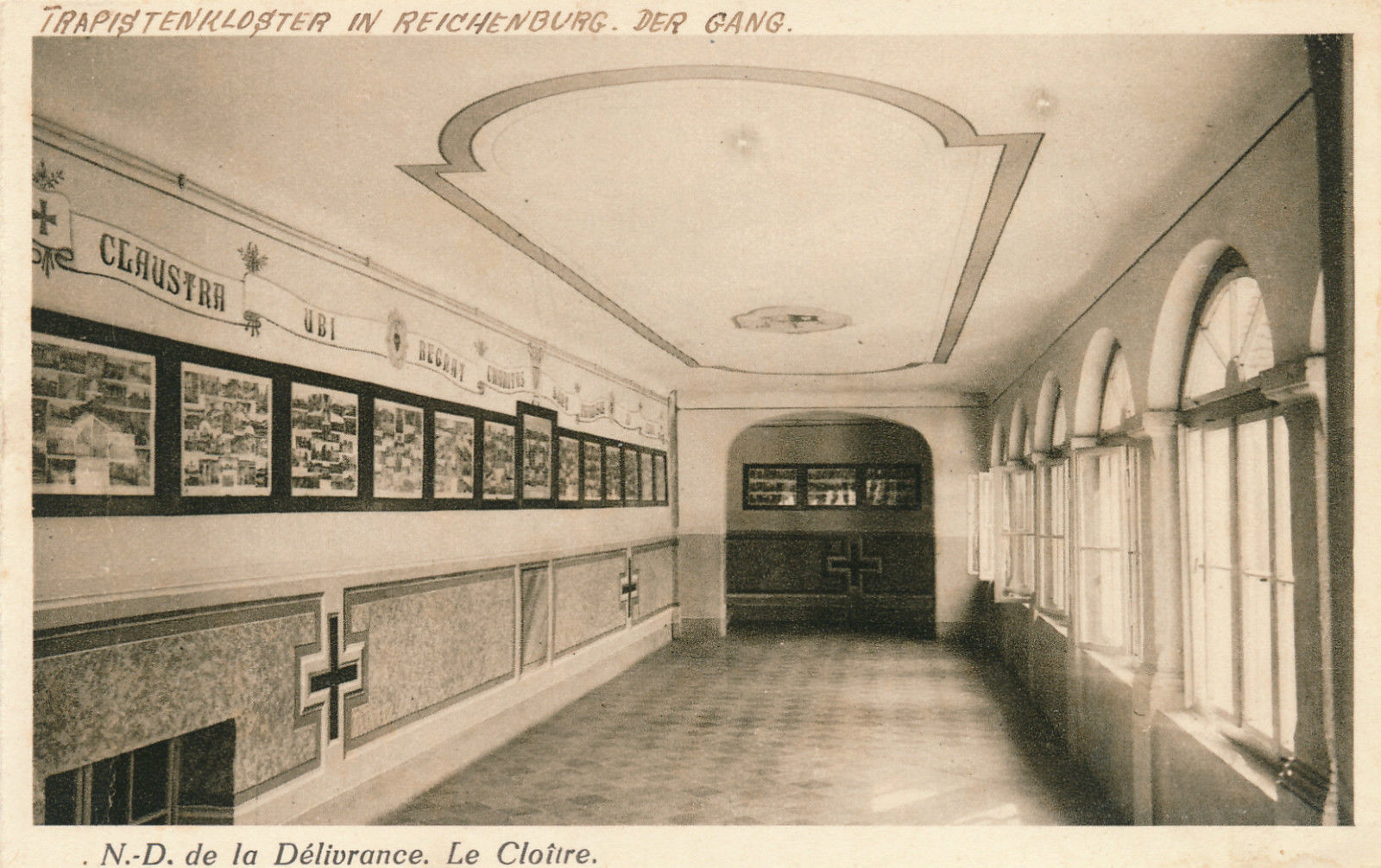 Postcard of Brestanica Castle.